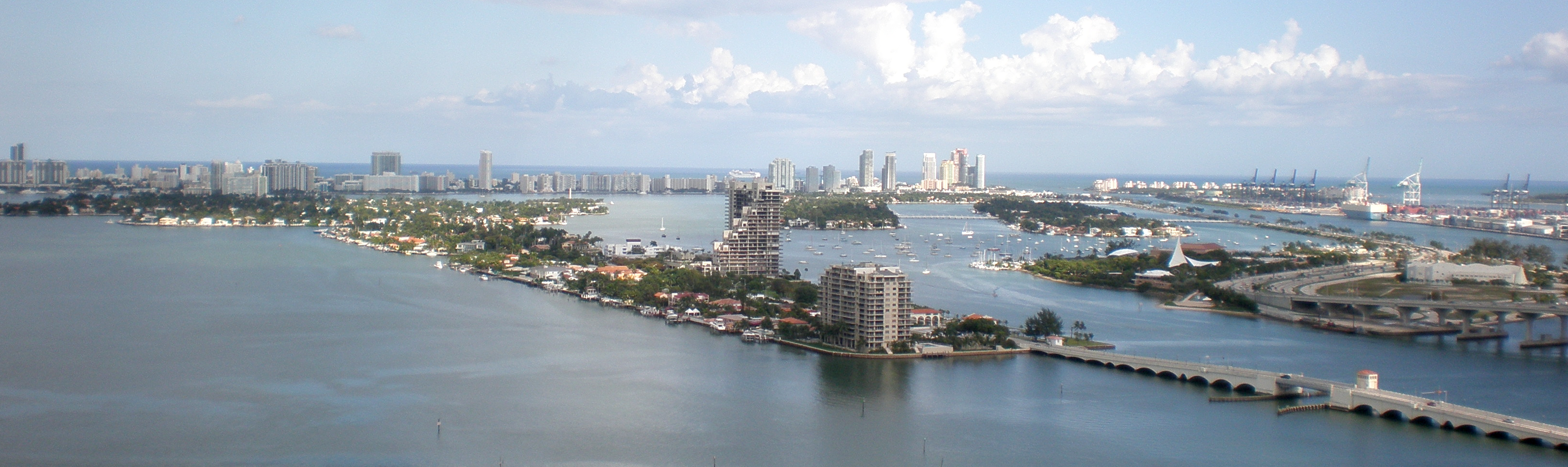 Digital photo taken by Marc Averette. View of the Venetian Causeway in Biscayne Bay with South Beach in the background and Watson Island, Florida to the right.